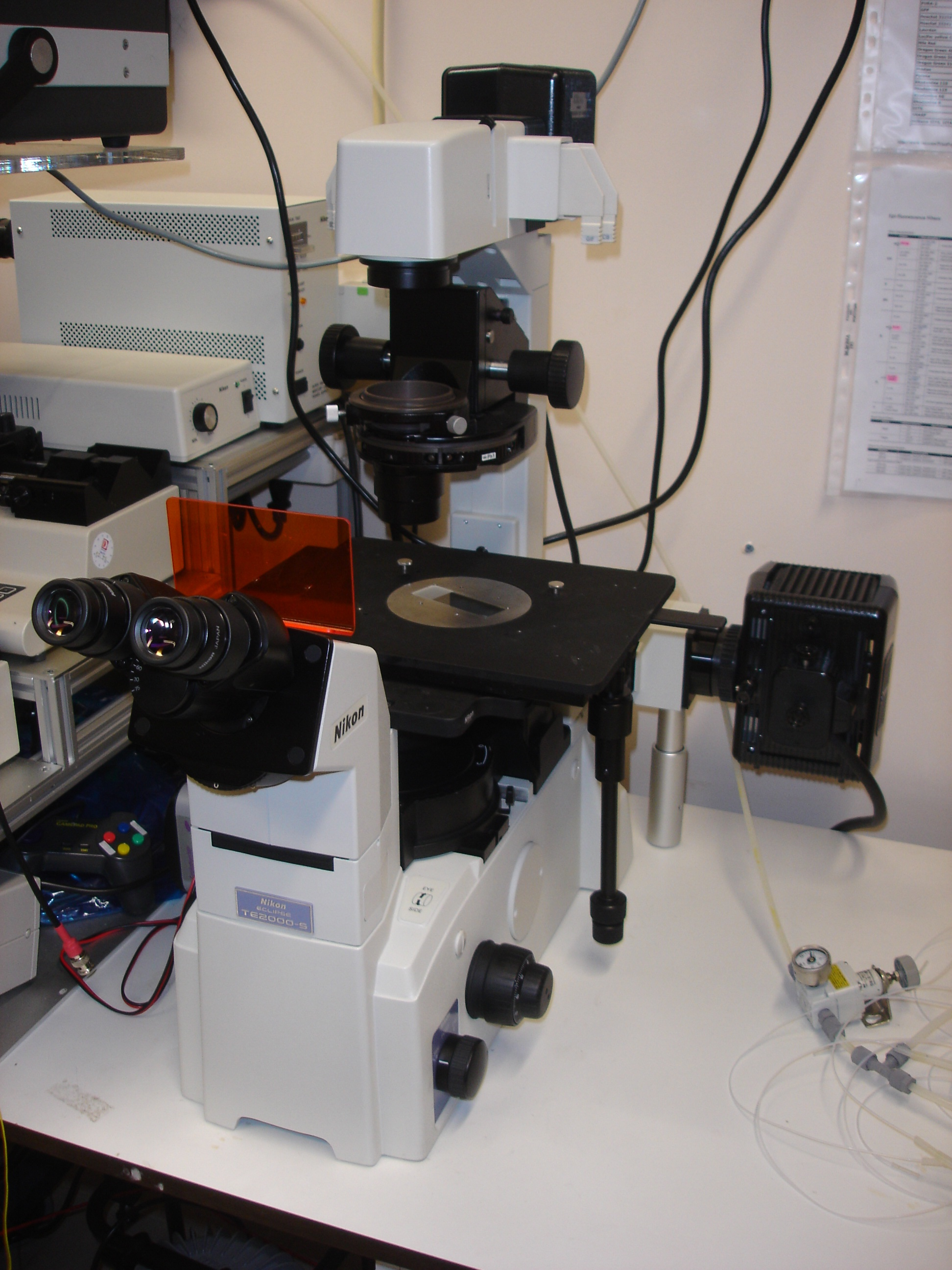 Inverted microscope arranged for fluorescence microscopy. Nikon TE2000S.